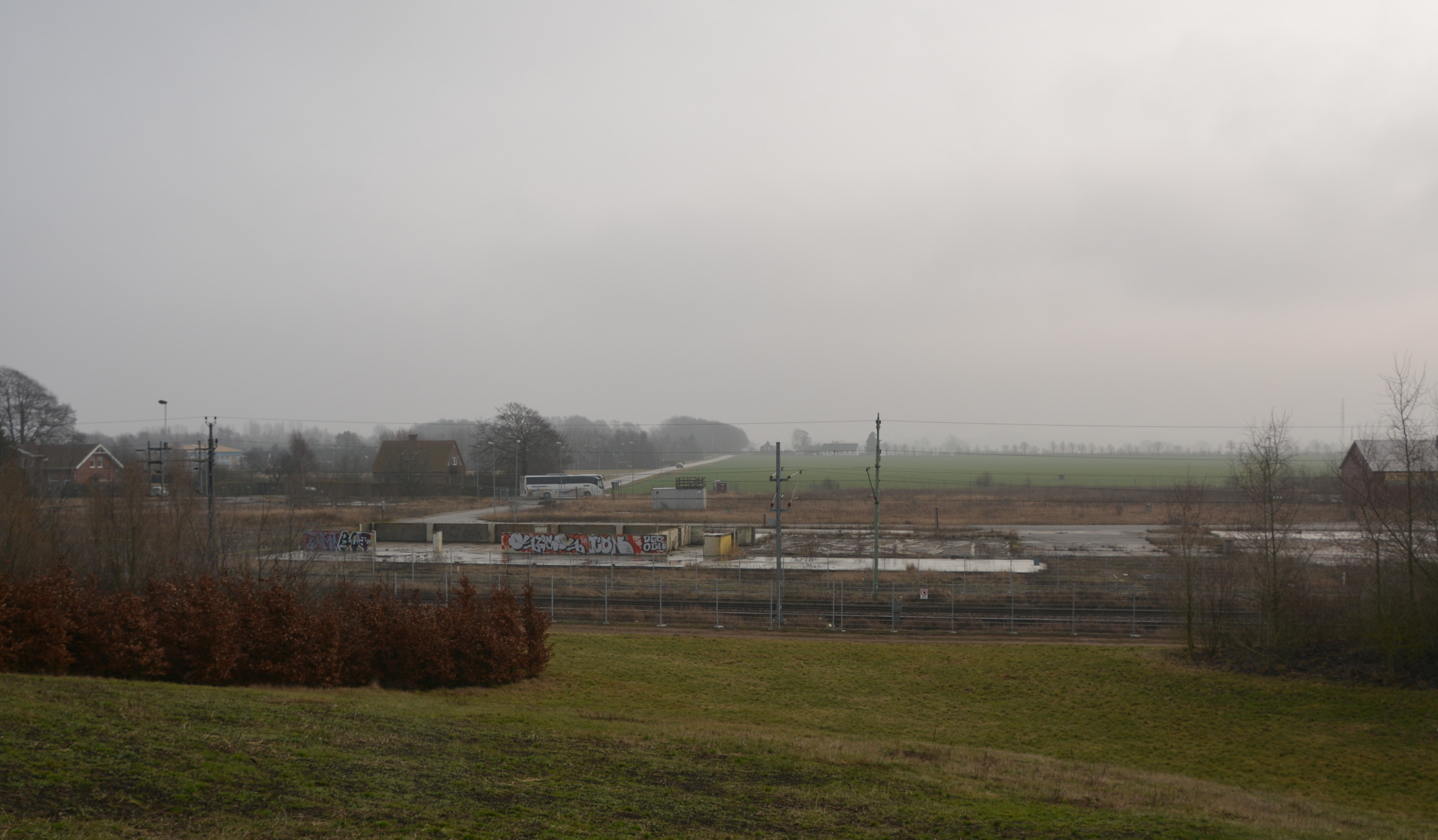 BT Kemi-området i Teckomatorp 2017